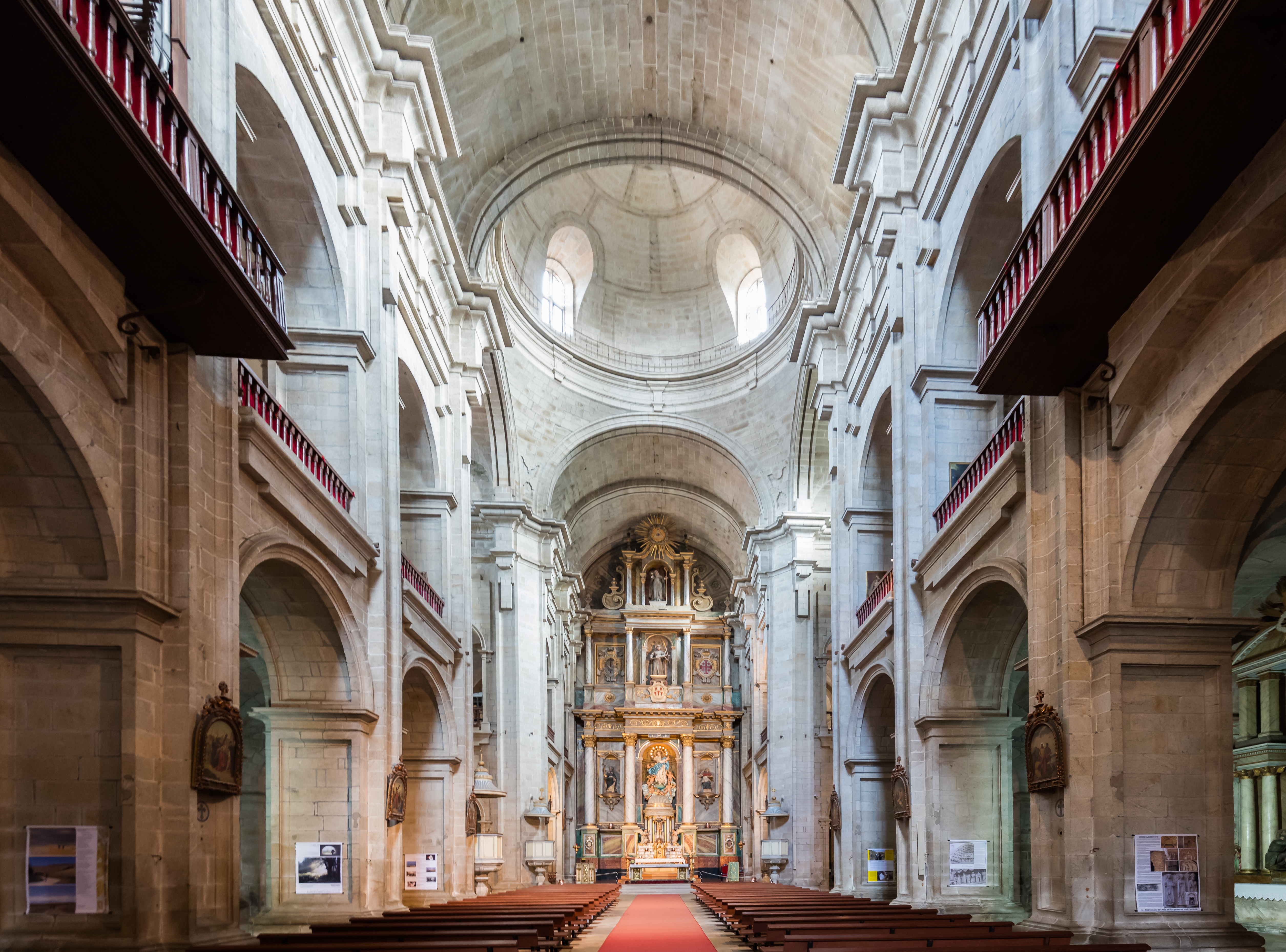 St Franciscus Monastery, Santiago de Compostela, Spain